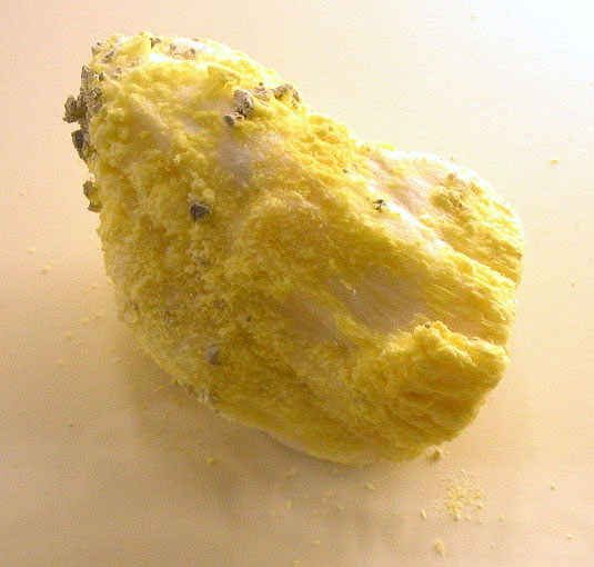 Yellow sassolite from Vulcano island, Italy. Photograph taken at the Natural History Museum, London.